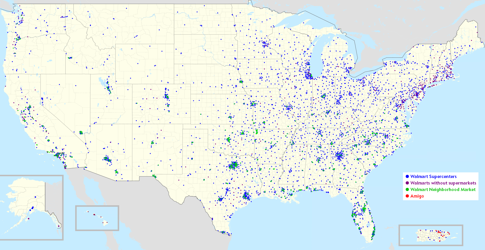 Footprint of Walmart stores within the United States. Areas with more than one branch have progressively larger points. Alaska not to scale with the rest of the map.